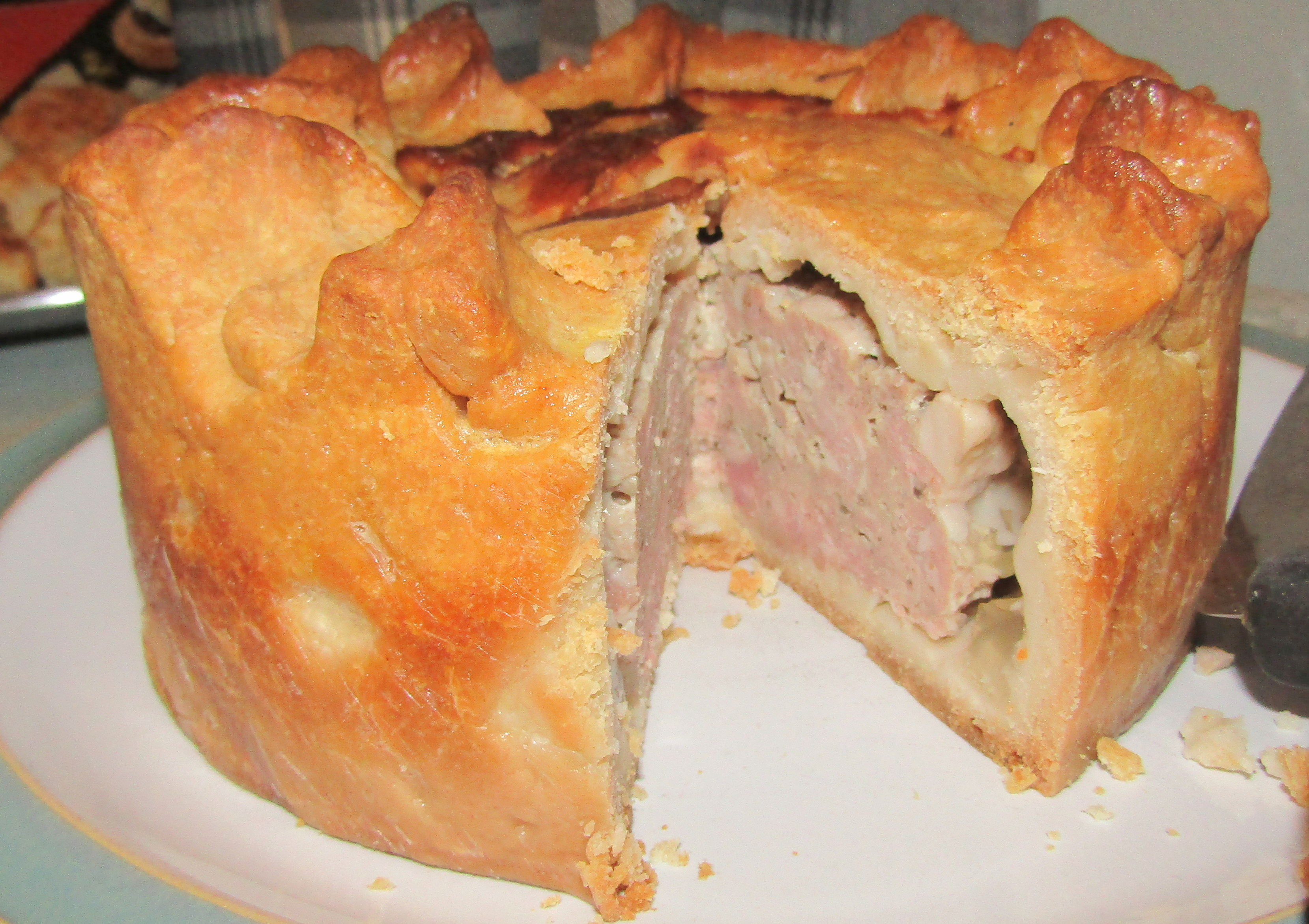 A traditional English Pork Pie served in an establishment in the town of Cromer, Norfolk, England.